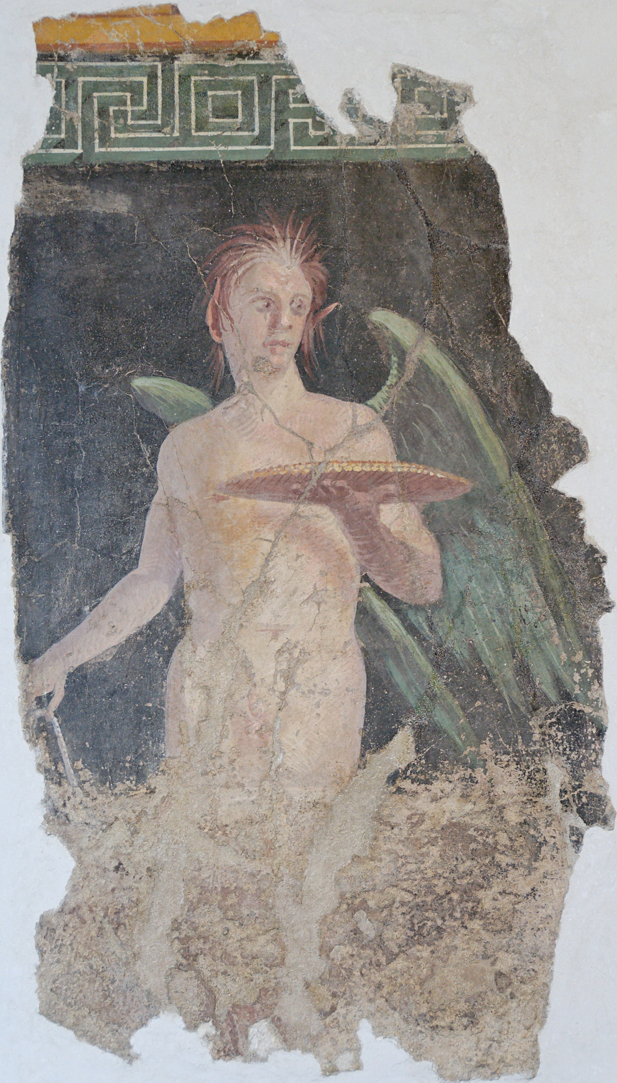 Winged genius, fragment. Second-style mural painting, Roman artwork, late 1st century BC. From the peristyle of the villa of P. Fannius Synistor in Boscoreale, near Pompeii.